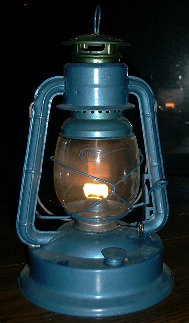 A modern chinese made RE Dietz "Little Wizard No. 1" kerosene lantern. 9 candlepower 5/8" wick. 36oz Font, 45 hour burn time.